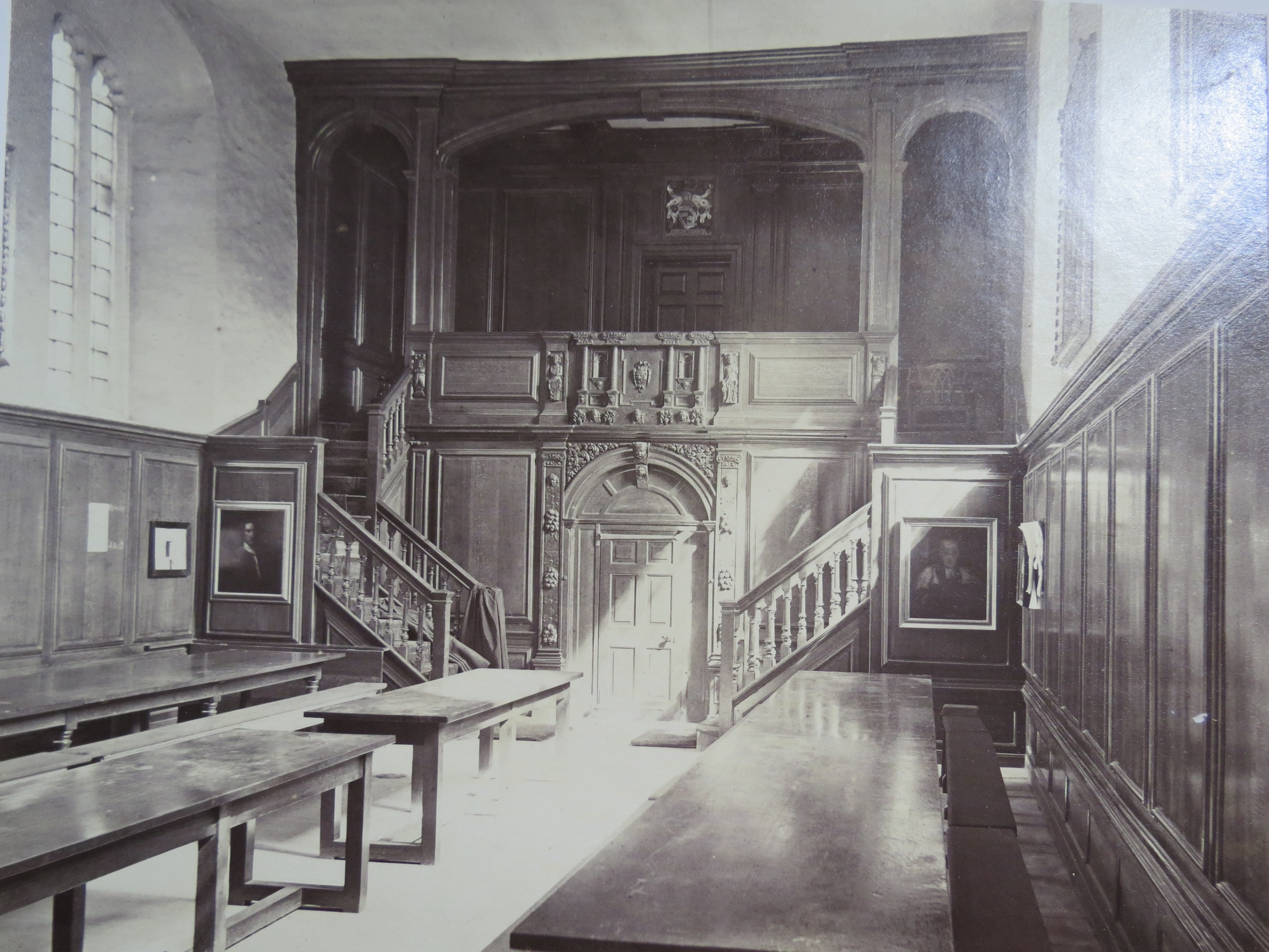 Hall, Magdalene College, Cambridge University. Image taken from original albumen print from a bound album of 58 Cambridge University photographs. Original 19th century album in the possession of Kimberly Blaker, New Boston Fine and Rare Books.